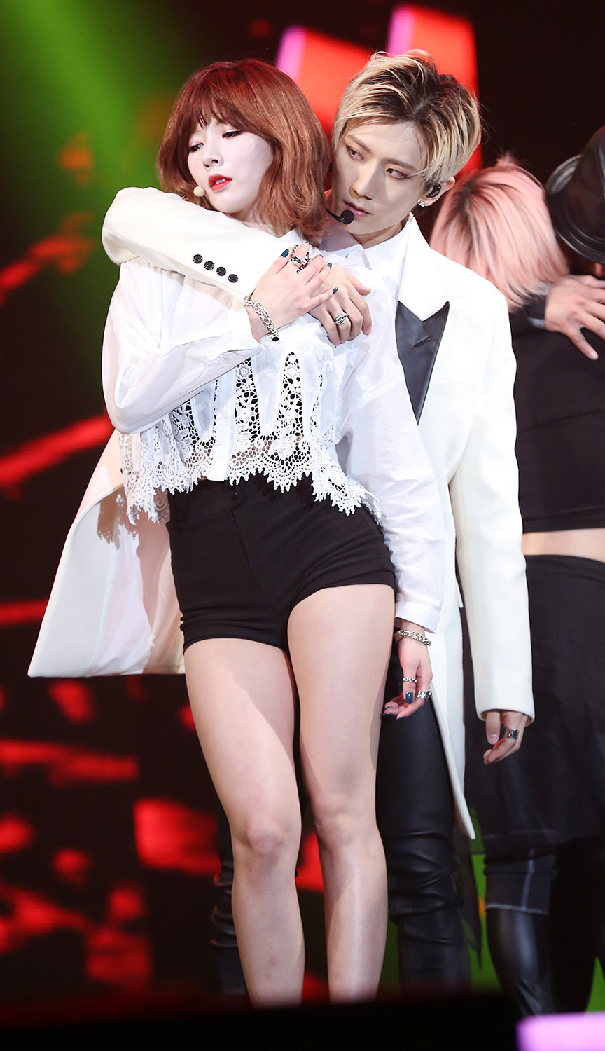 Trouble Maker performing at V-Pop Festival Concert on January 18, 2014.